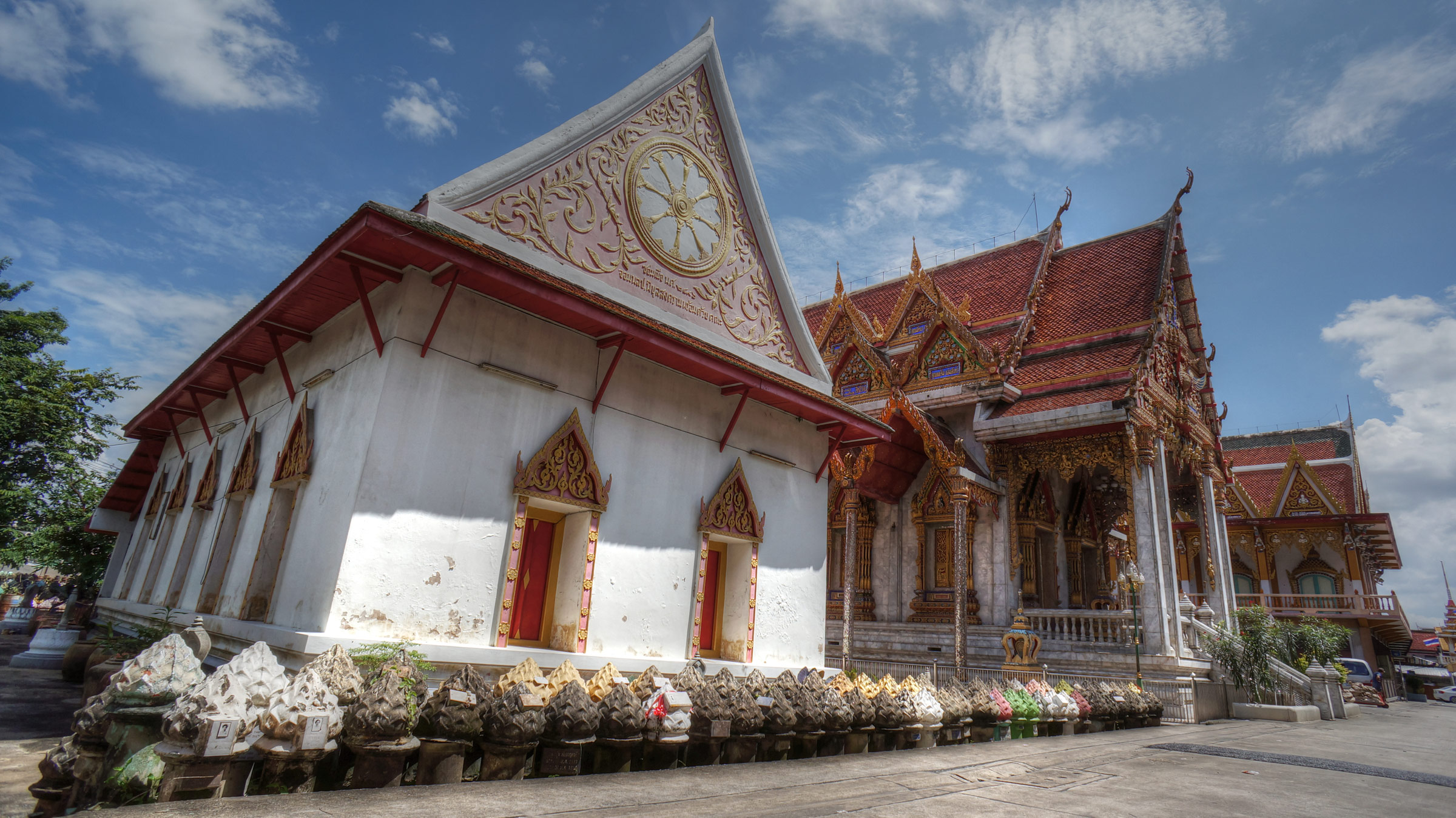 Wat Pak Nam, Nonthaburi